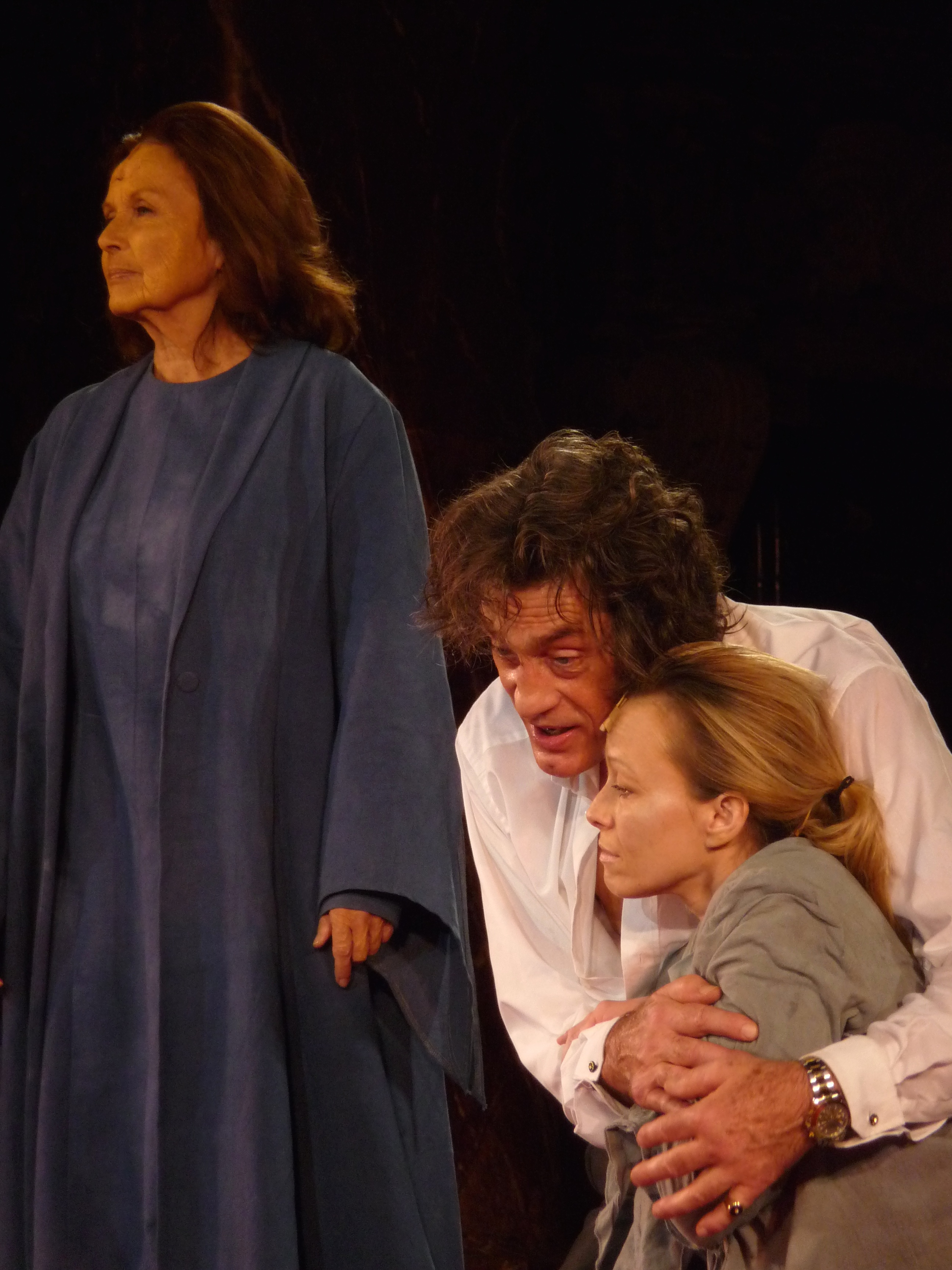 Scene from Hugo von Hofmannsthal's "Jedermann" with German actors Brigitte Grothum, Winfried Glatzeder and Debora Weigert (f.l.t.r.), Berlin Cathedral, Germany